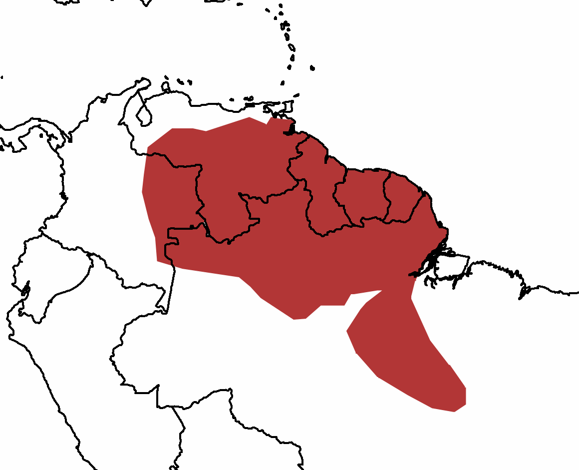 Little Chachalaca Ortalis motmot. Distribution.